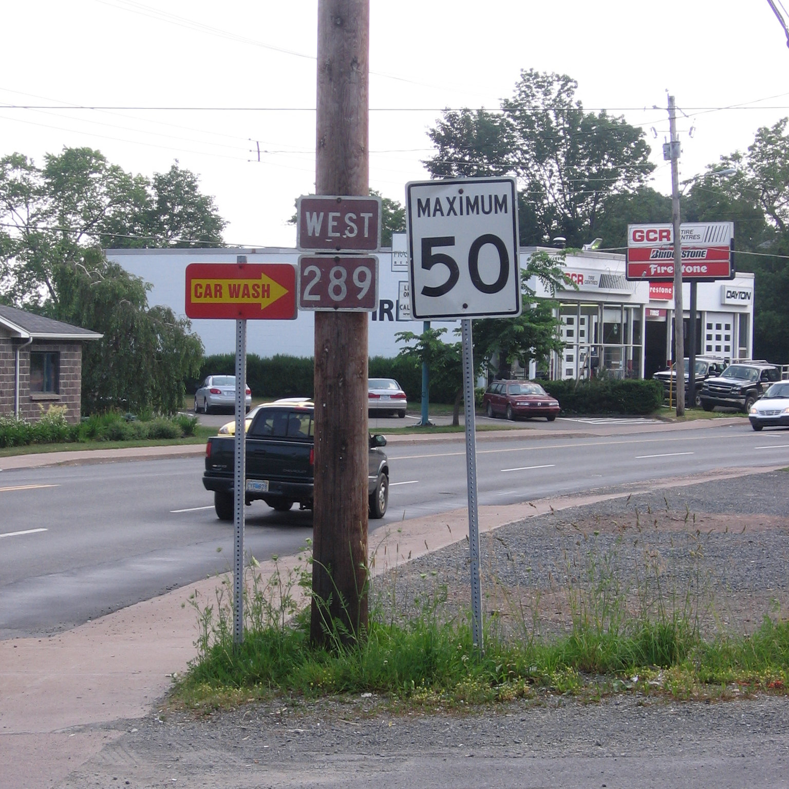 Photo of route sign, New Glasgow, NS